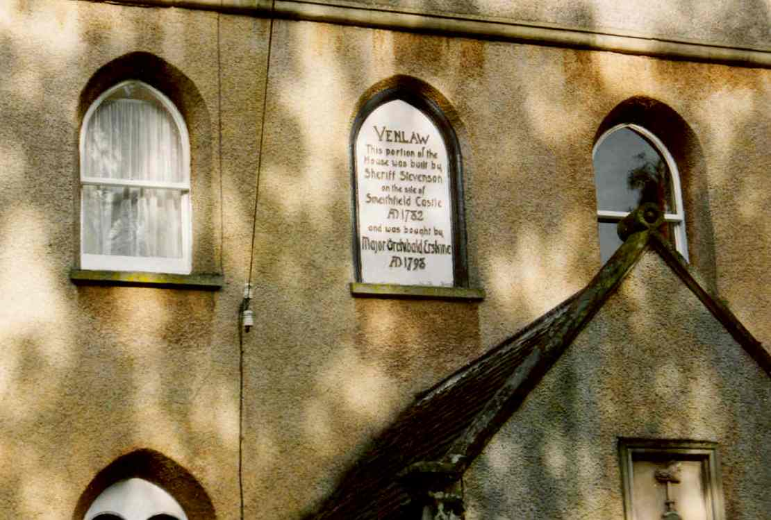 Venlaw Castle Plaque